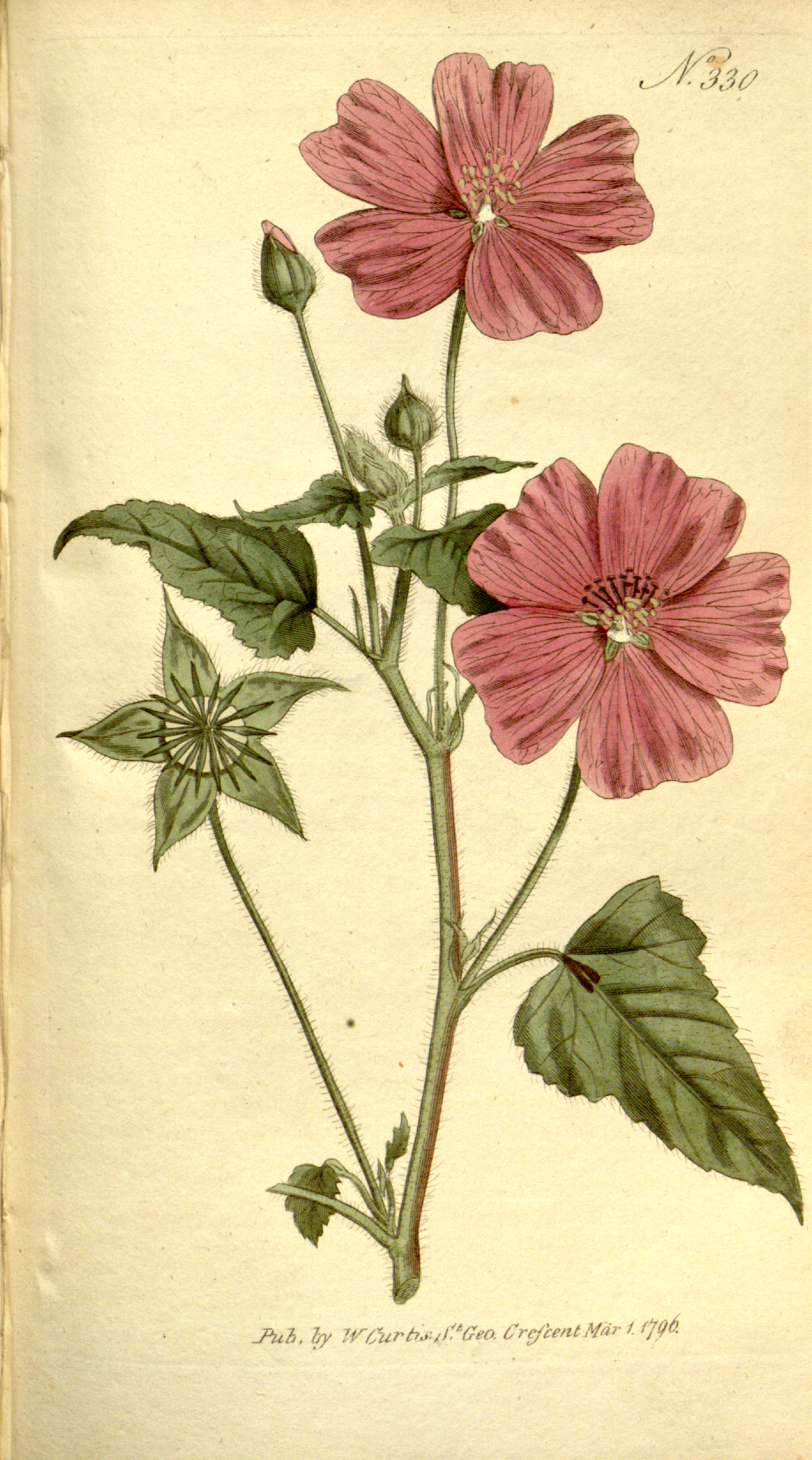 This is a plate from The Botanical Magazine, Volume 10.